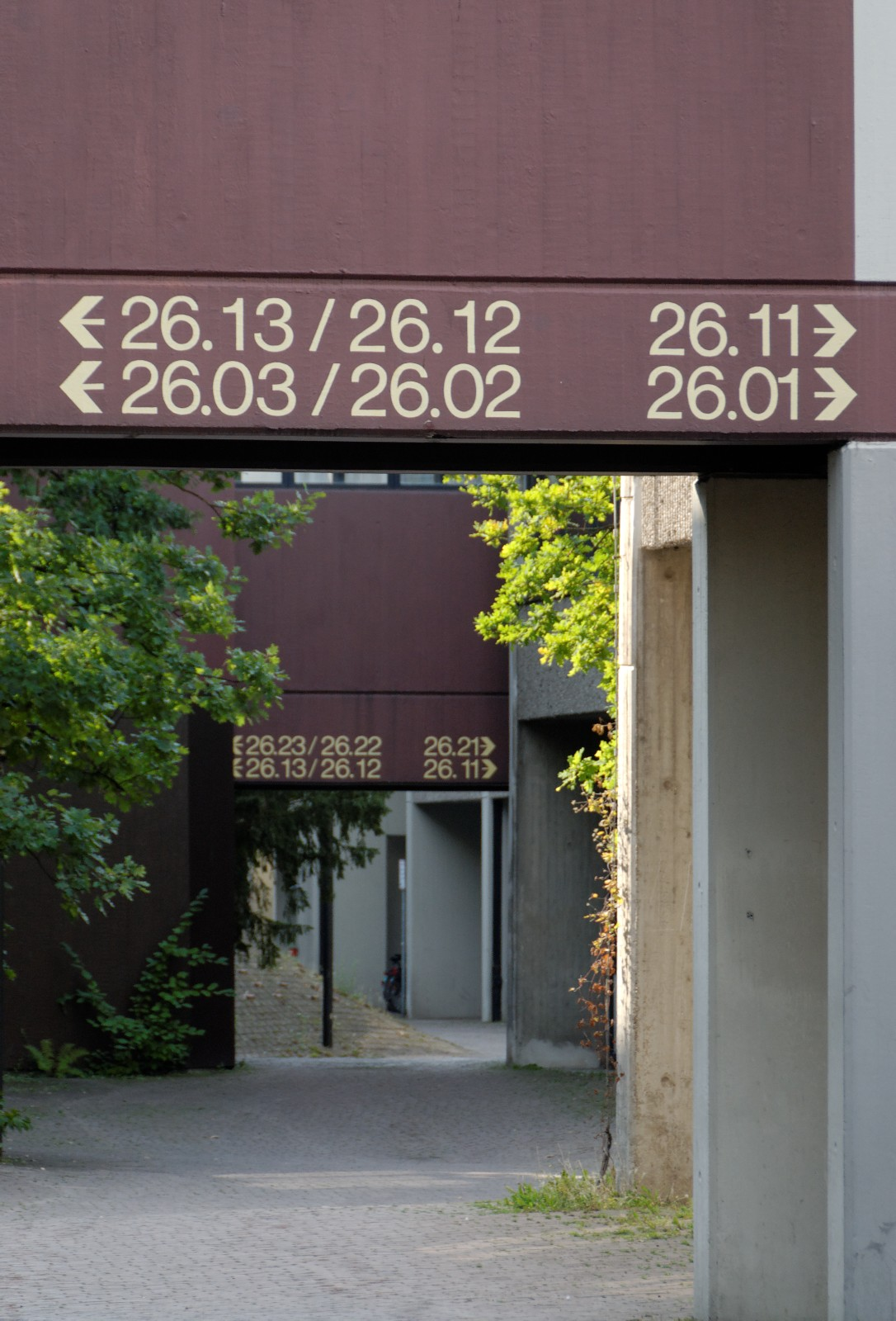 Path in area 26 of the Heinrich-Heine-Universität Düsseldorf in Düsseldorf-Bilk, Germany